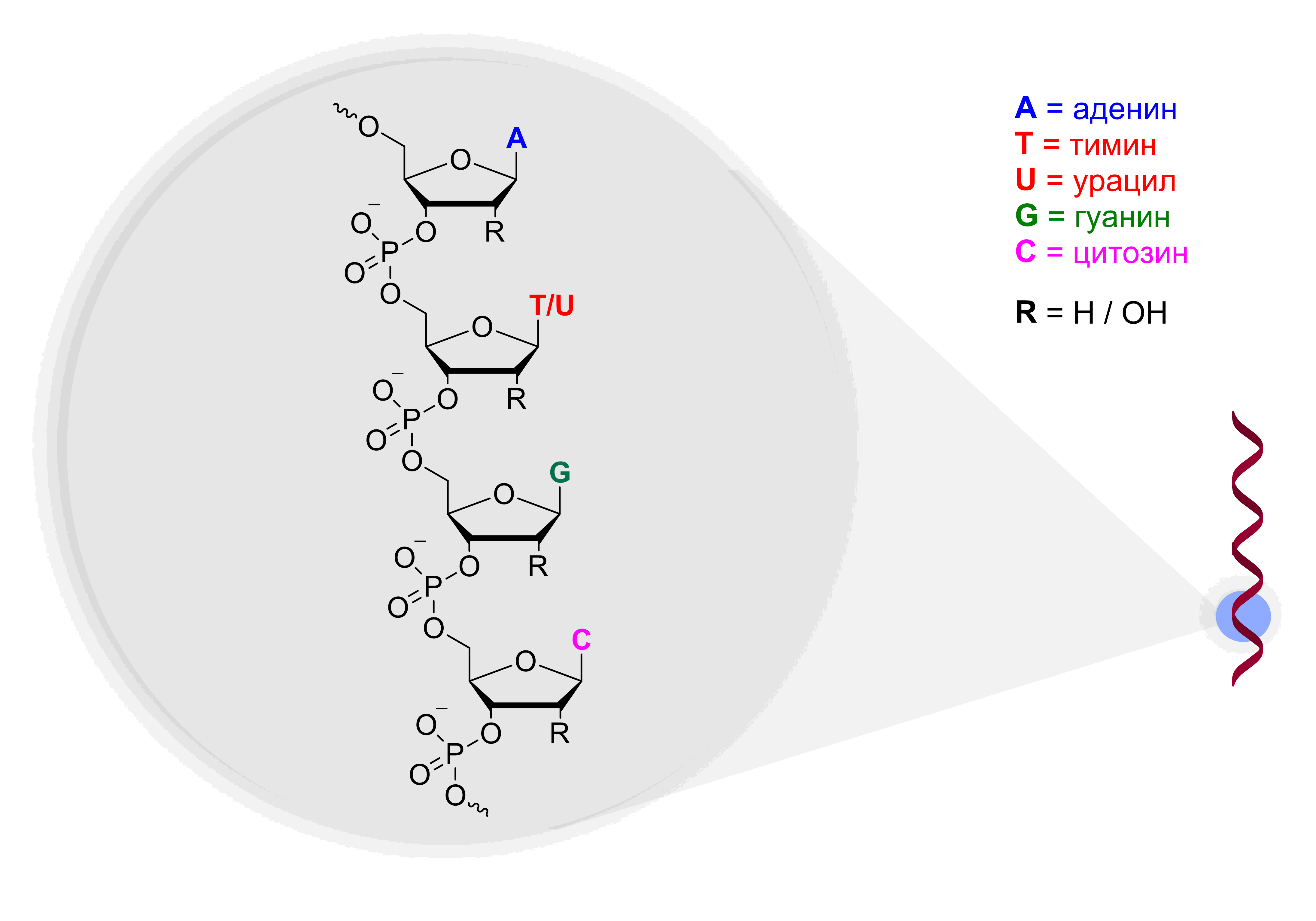 Oligonucleotide Structure